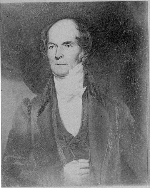 Frances Forbes, a Chief Justice of the Supreme Court of Newfoundland, and the first Chief Justice of the Supreme Court of New South Wales.